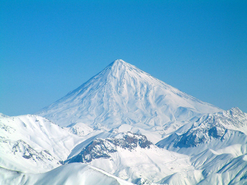 Mount Damavand in winter, Iran.